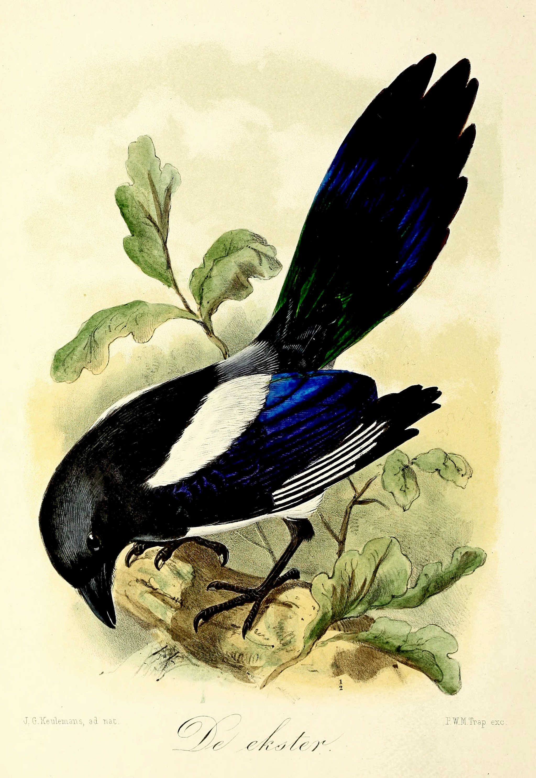 « Pica varia » = Pica pica (Eurasian magpie)